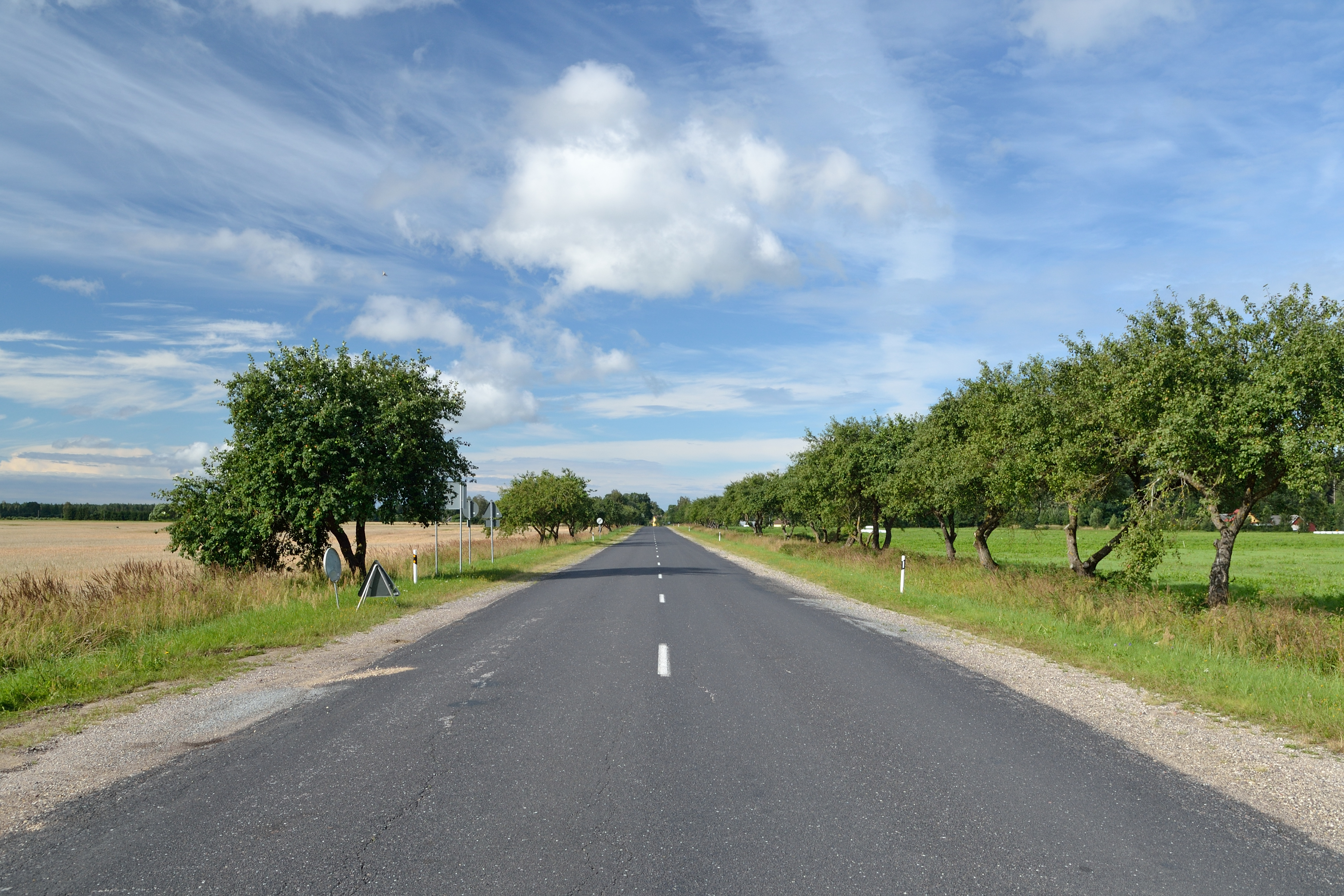 Pärnu–Tori road (Estonia) in Tori